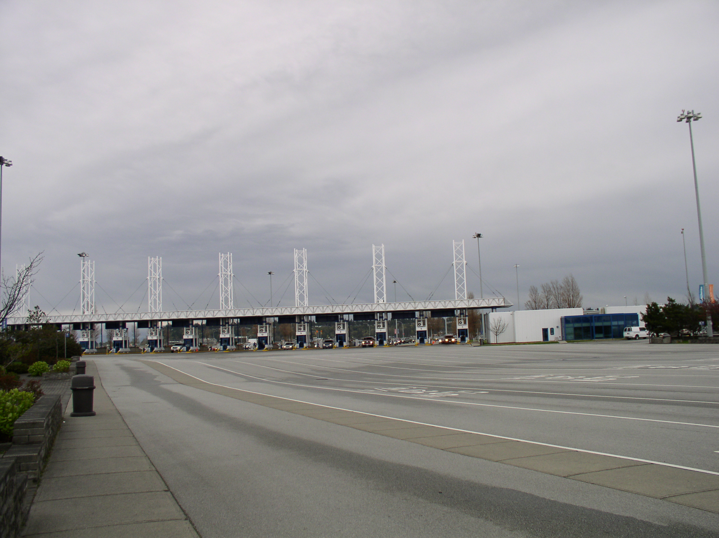 BC Ferries tollbooths at Tsawwassen Ferry Terminal